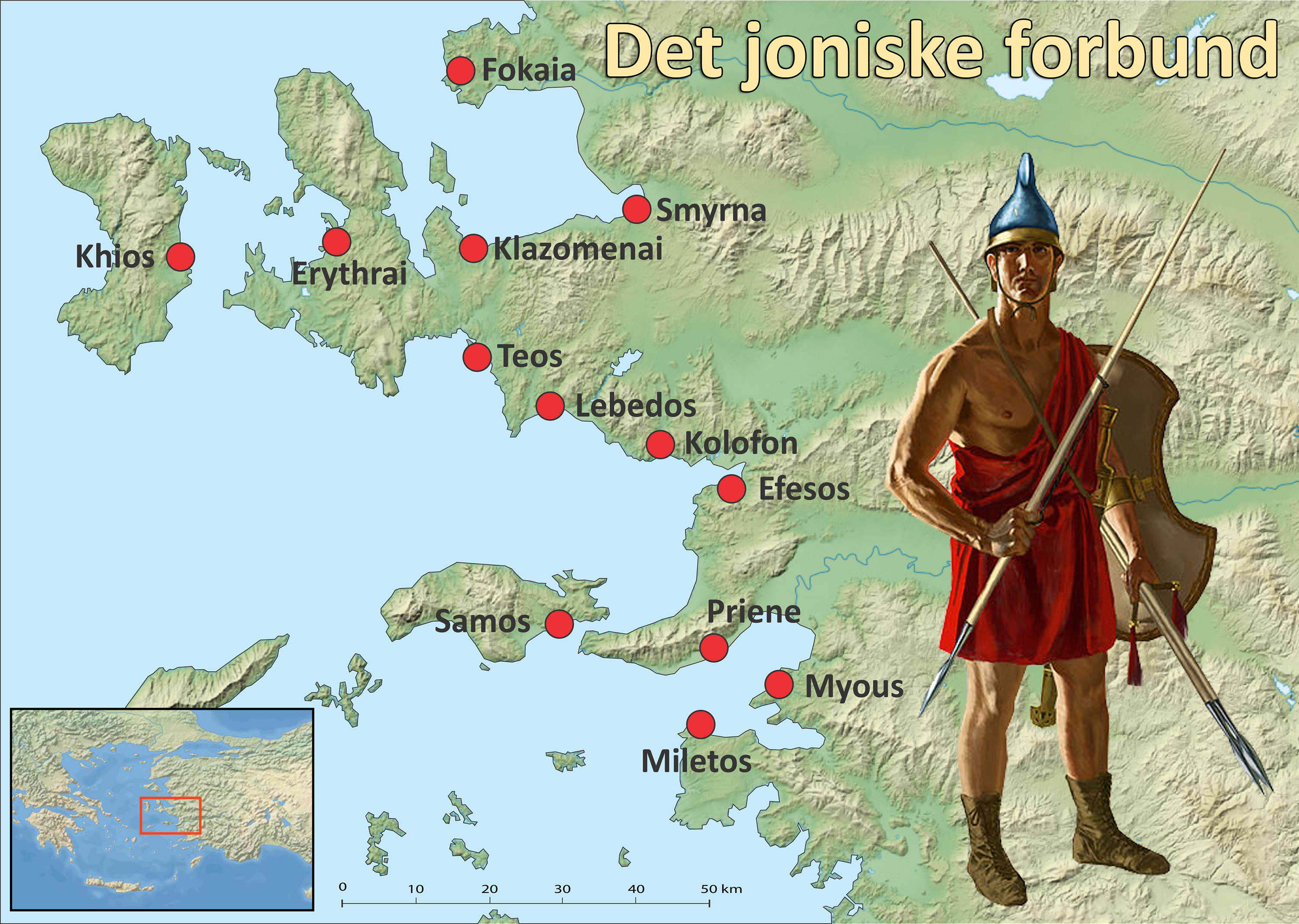 Ionian League (Norwegian spelling)